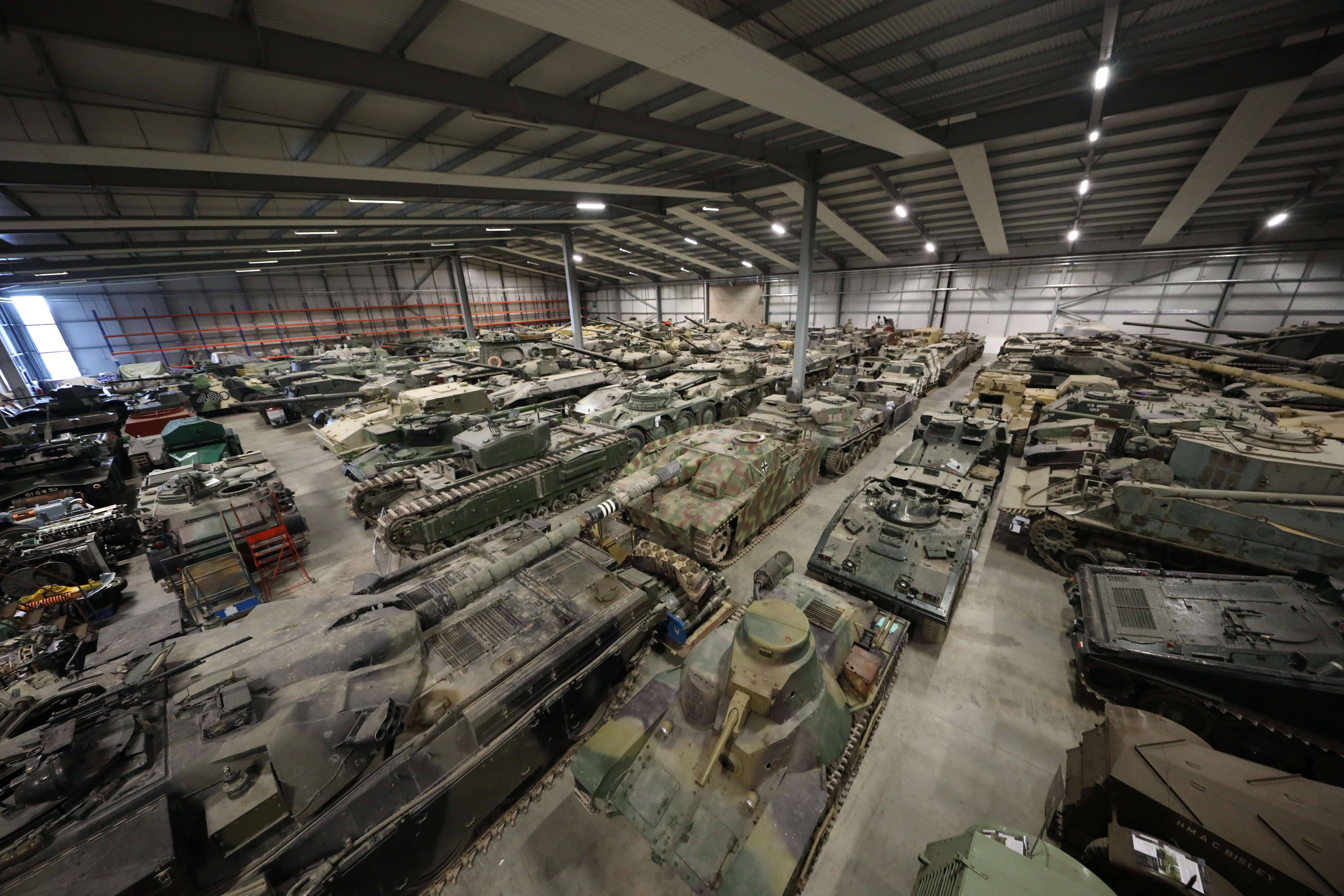 Photo of the interior of the Vehicle Conservation Centre at Bovington tank museum